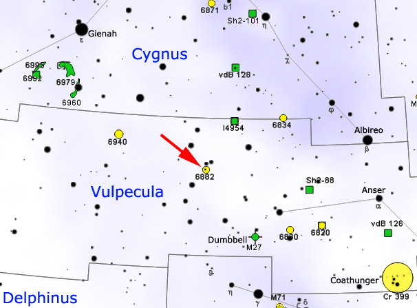 Map of NGC 6882/6885